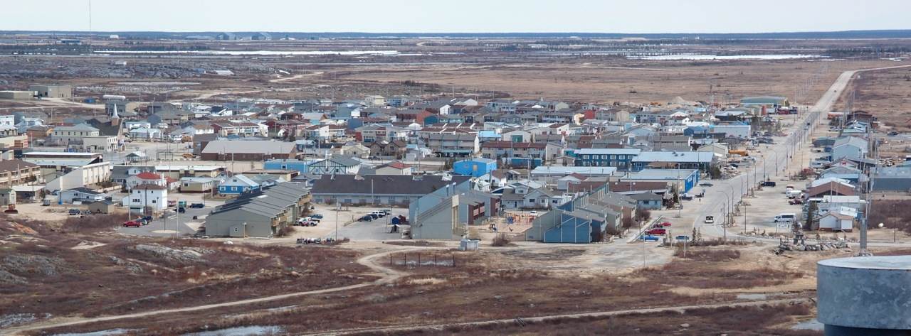 The Town of Churchill as seen from the port